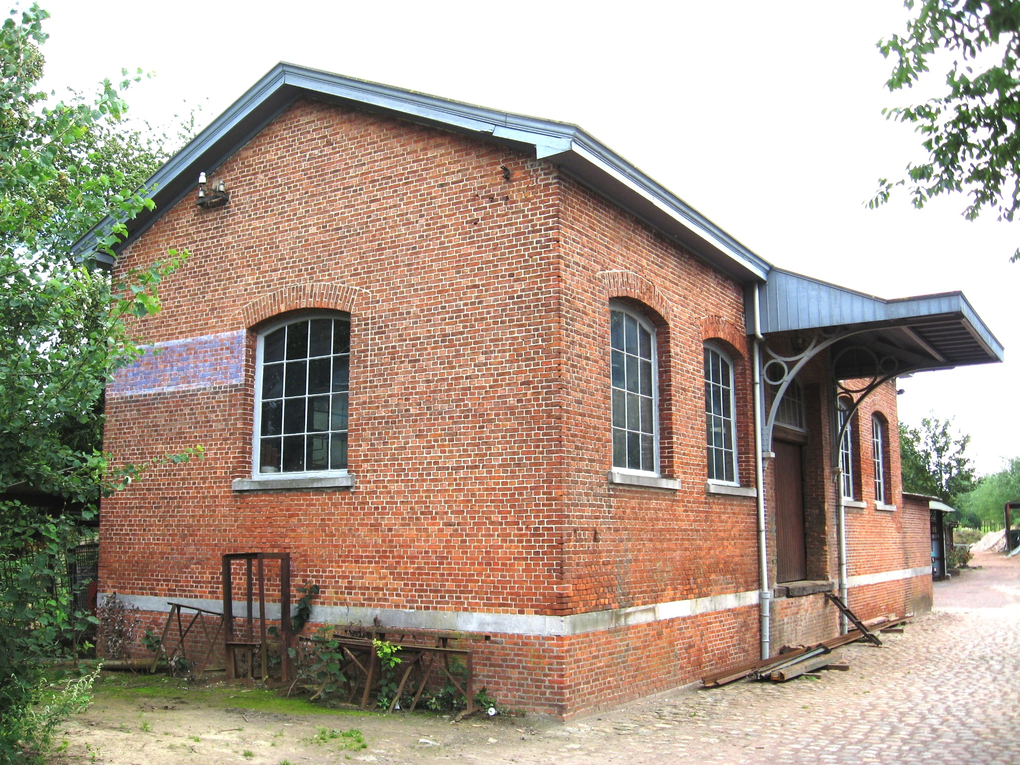 Former goods station in Jesseren, Borgloon, Limburg, Belgium